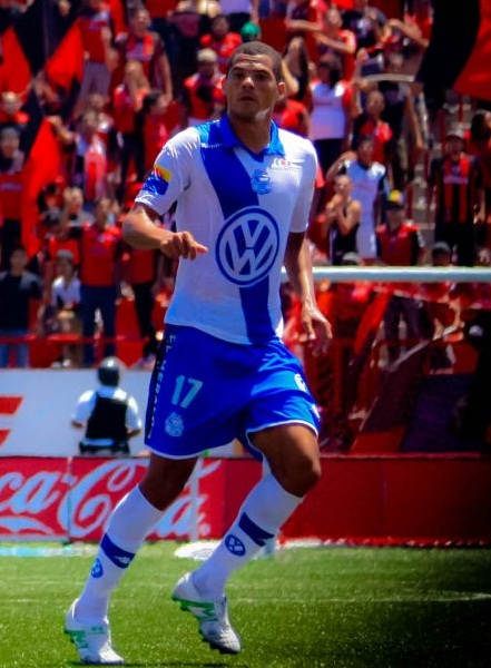 Puebla player Lucas Silva